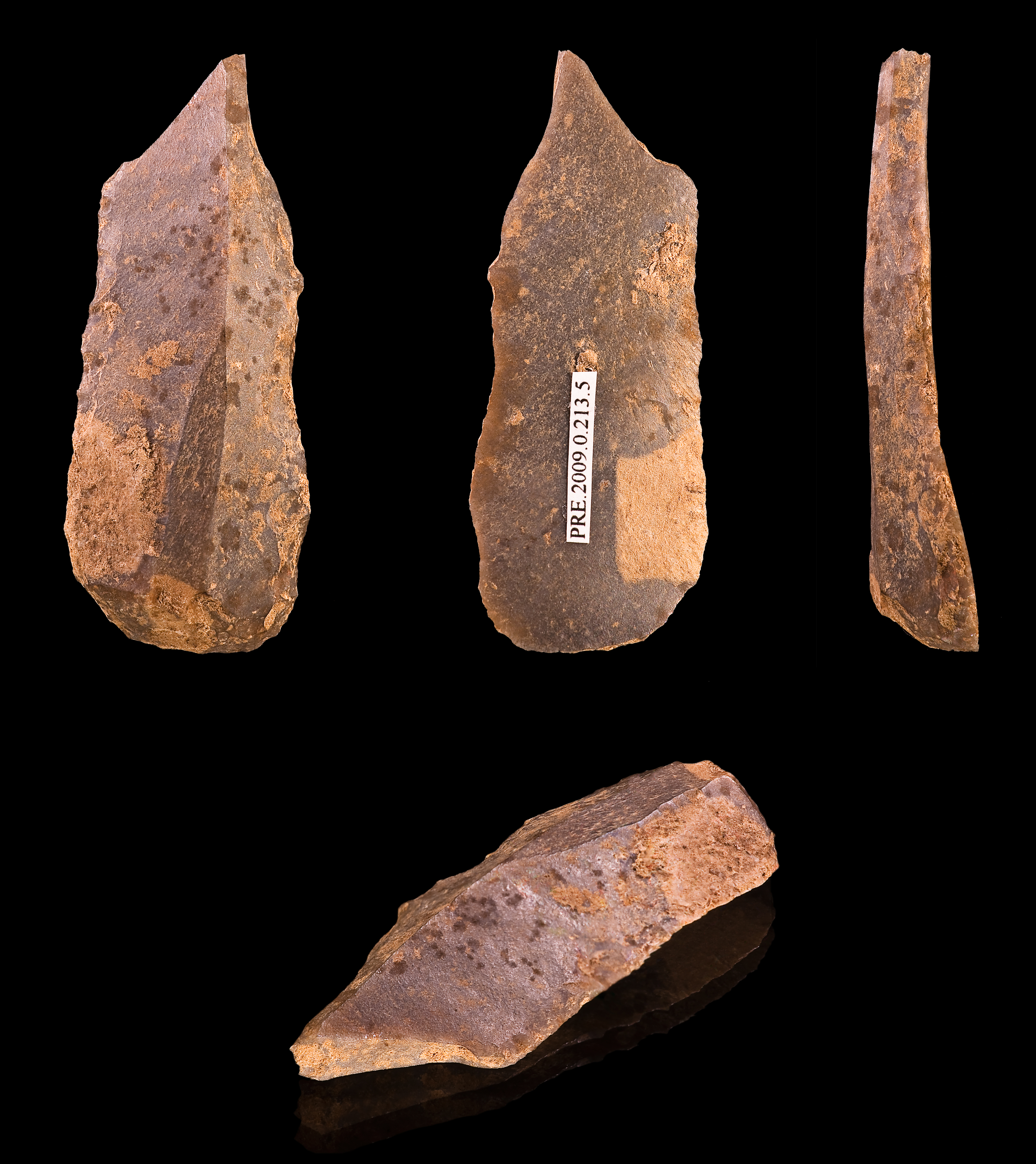 Flint Burin Multiple views of the same object Stage : Upper Paleolithic (Gravettian) (-29,000 to –22,000 Before the Current Era) Locality : Brassempouy, Landes department, France Size : 59x24x1mm